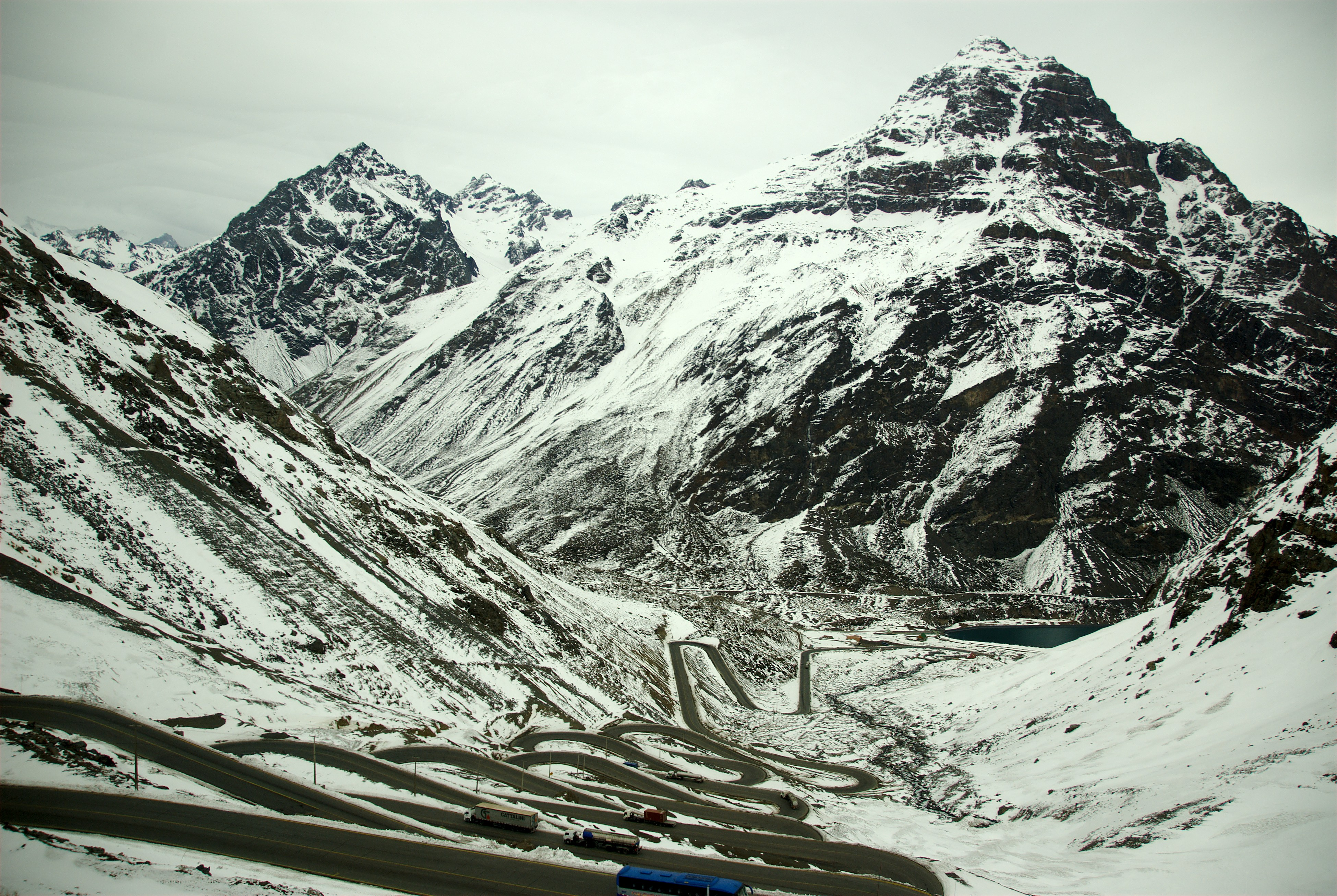 Switchbacks on the Chilean road up to Tunel del Cristo Redentor in winter.